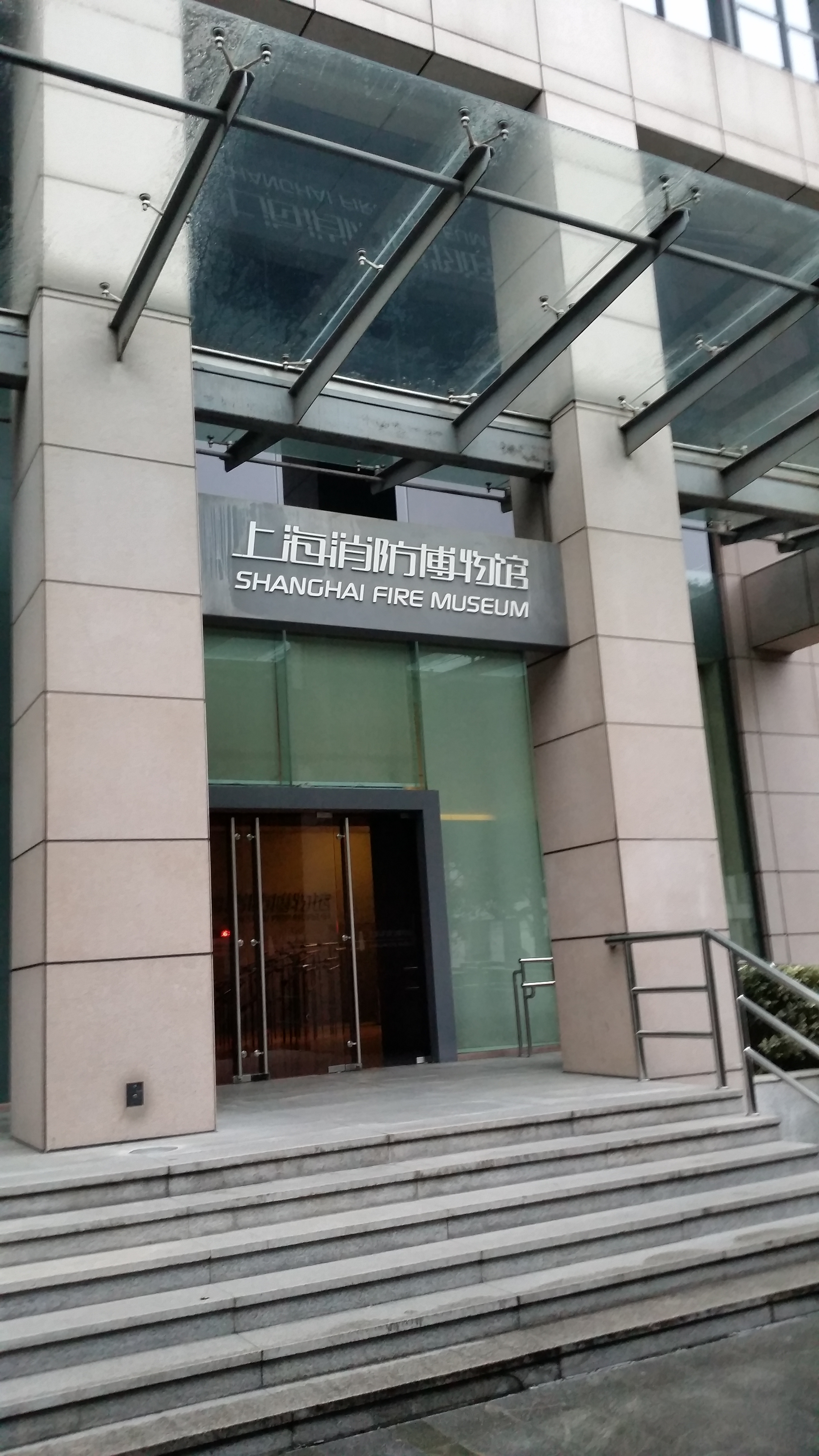 Shanghai Fire Museum